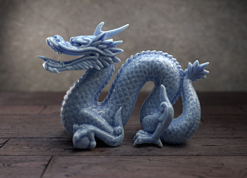 Computer generated image of the "Stanford Dragon" rendered in Blender . 3D model used with permission from Stanford Computer Graphics Laboratory.